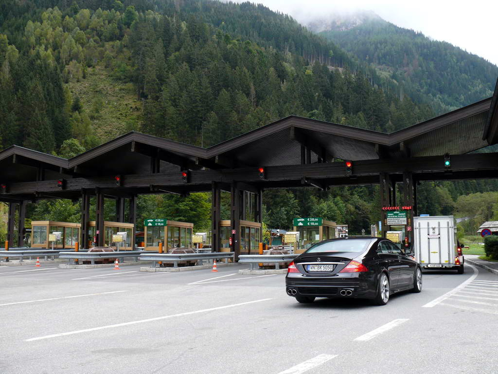 Toll booth of the High Alpine Road